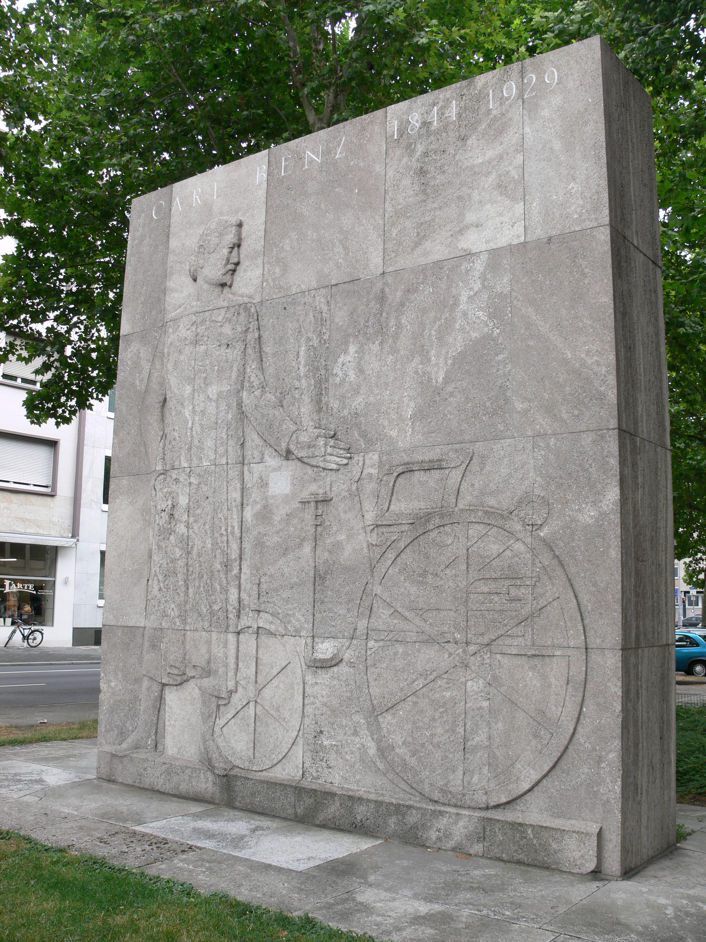 Max Laeuger (1864-1952): Carl-Benz-Denkmal, Muschelkalk, 1933, Augustaanlage, Mannheim Max Laeuger (1864–1952) Alternative names Max LäugerDescriptionGerman sculptor and designerDate of birth/death 30 September 1864 12 December 1952Location of birth/death Lörrach LörrachAuthority control : Q85834 VIAF: 35251439 ISNI: 0000 0001 2278 2822 ULAN: 500240610 LCCN: n84078504 Open Library: OL923730A WorldCat creator QS:P170,Q85834